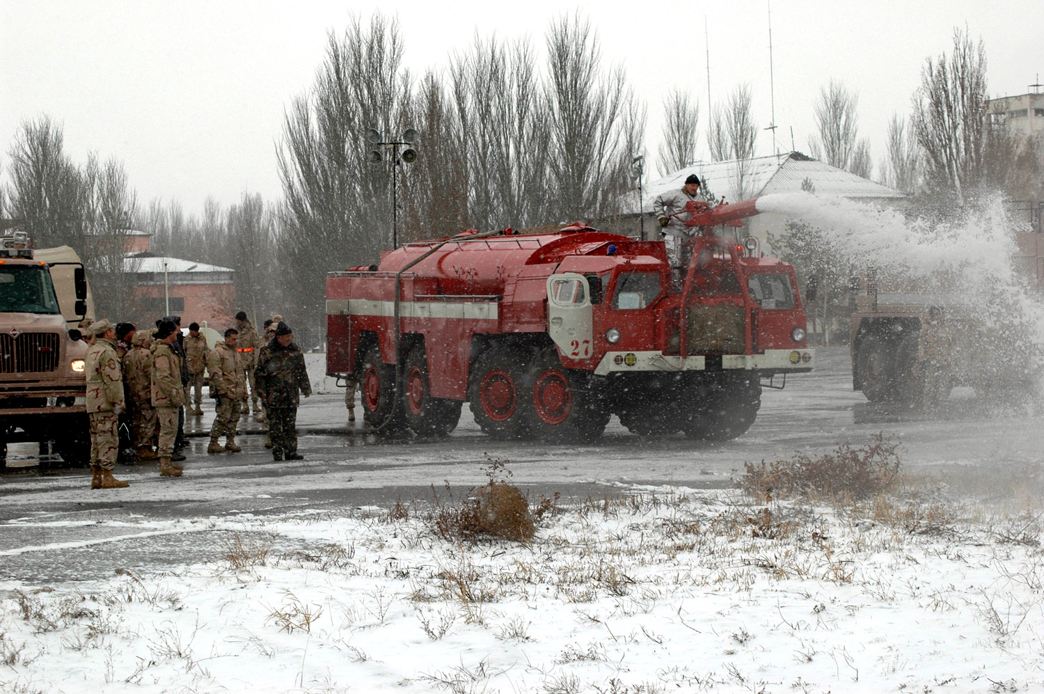 Manas International Airport firefighter Stas Suleymanov demonstrates to Airmen the use of the Kyrgyz firetruck water canon using water pumped from a 376th Air Expeditionary Wing fire truck Feb. 25 at the airport in Kyrgyzstan. The 376th AEW fire department routinely trains with their MIA and other Kyrgyz counterparts.